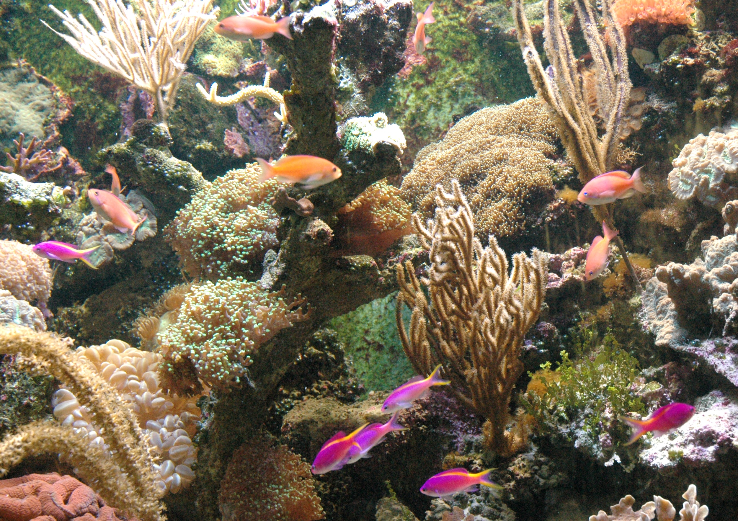 Marine aquarium